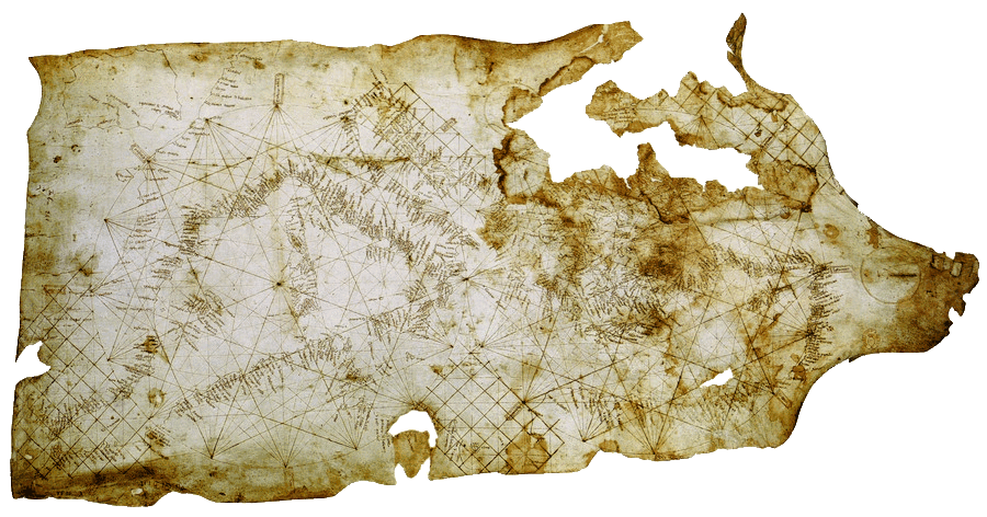 A picture of the Carta Pisana, a map made at the end of the 13th century, about 1275-1300.